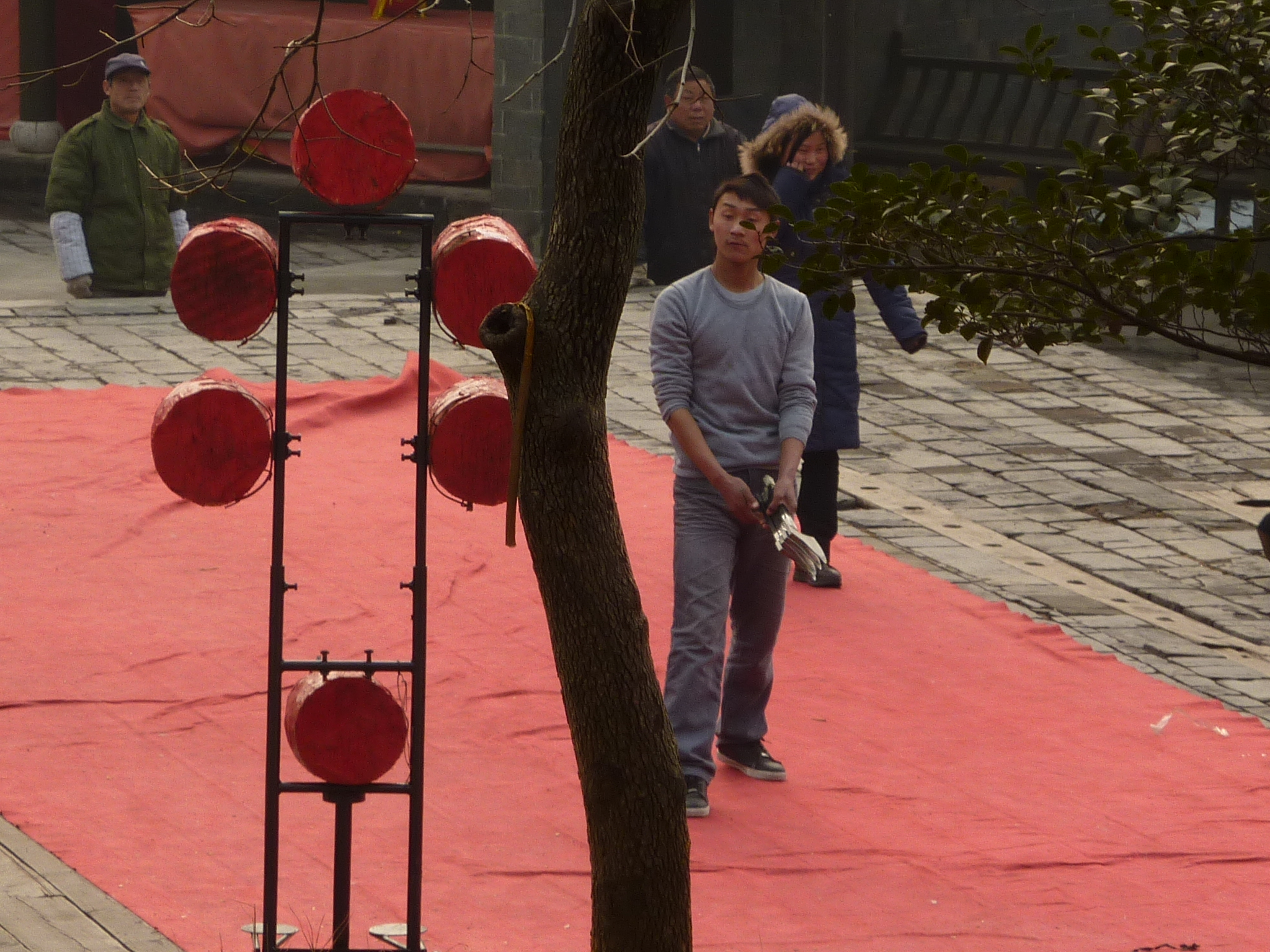 Fun and games in the Ming Cultural Village (Yangshan Quarry, Nanjing). Axe throwing - I suppose, a traditional Ming pastime.